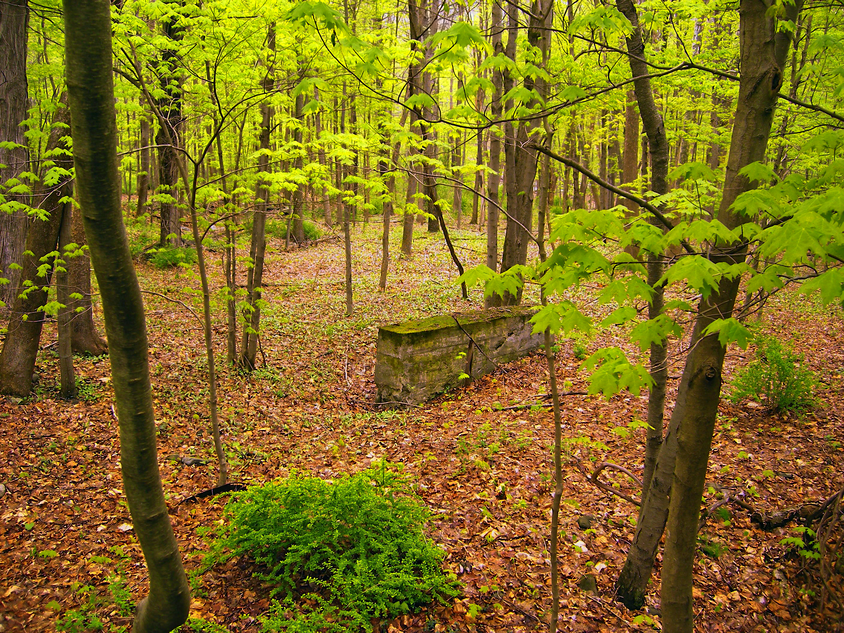 Isolated stone wall in the woods near Dingmans Ferry, Pike County, within the Delaware Water Gap National Recreation Area. Forests have reclaimed most of the once-abundant farmland in the Delaware River Valley north of the Water Gap. Stone walls and foundations of long-abandoned farms are often seen in the woods.